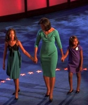 Cropped from a photo of Michelle Obama with daughters at the 2008 Democratic National Convention